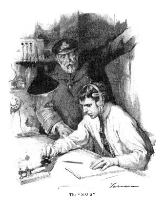 Radio operator on a sinking ship, with the captain behind him, during the wireless telegraphy era prior to 1920 sending a call for rescue; the letters "SOS". Originally appeared as the frontispiece of "The Wireless Man" by Francis A. Collins, Grosset & Dunlap Publishers, New York, Copyright 1912 by The Century Company.